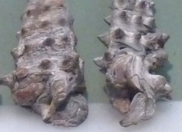 Vicarya japonica at Osaka Museum of Natural History